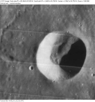 LO-IV-109H A sinuous rille (known as Rima Bode III in the System of Lunar Craters) appears to begin in the unnamed elongated pit near the center left margin, and then winds north across the surrounding mare (visible in upper left corner of this frame).